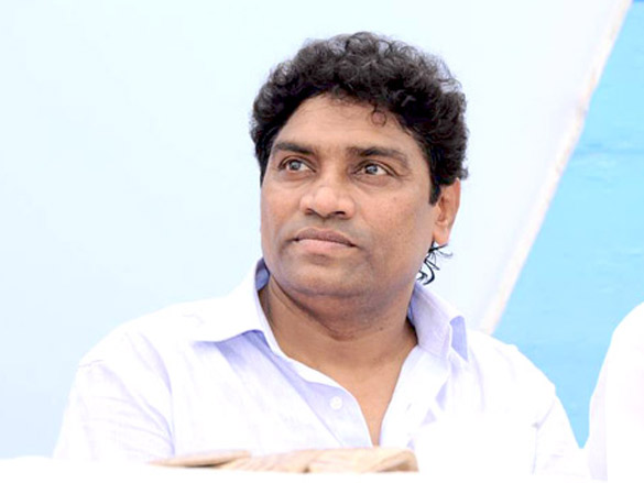 Johnny Lever at the Foundation Stone Laying Ceremony of CINTAA Tower